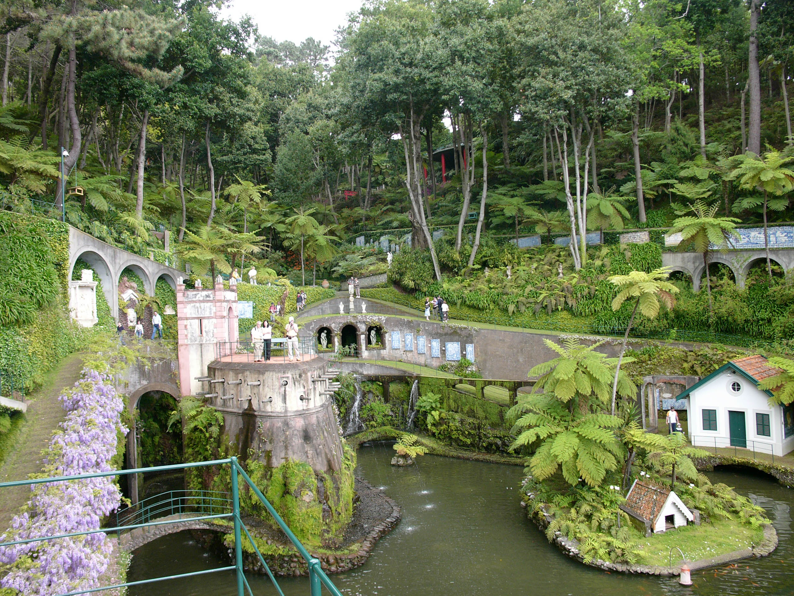 Part of the Jardim Tropical Monte Palace in Monte above Funchal, Madeira. Lining some of the paths are Azulejos.